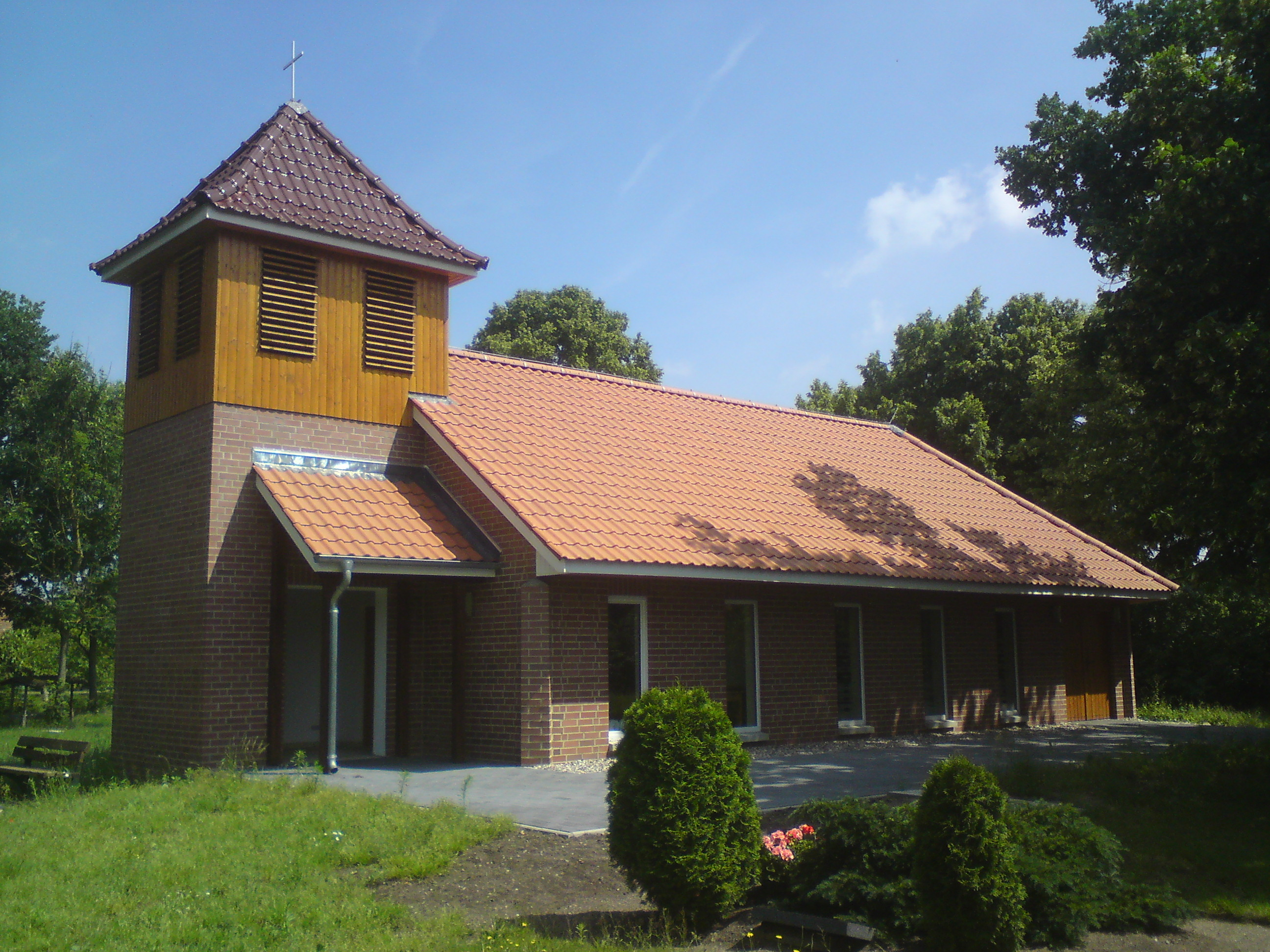 Chapel Zweedorf Summer 2012